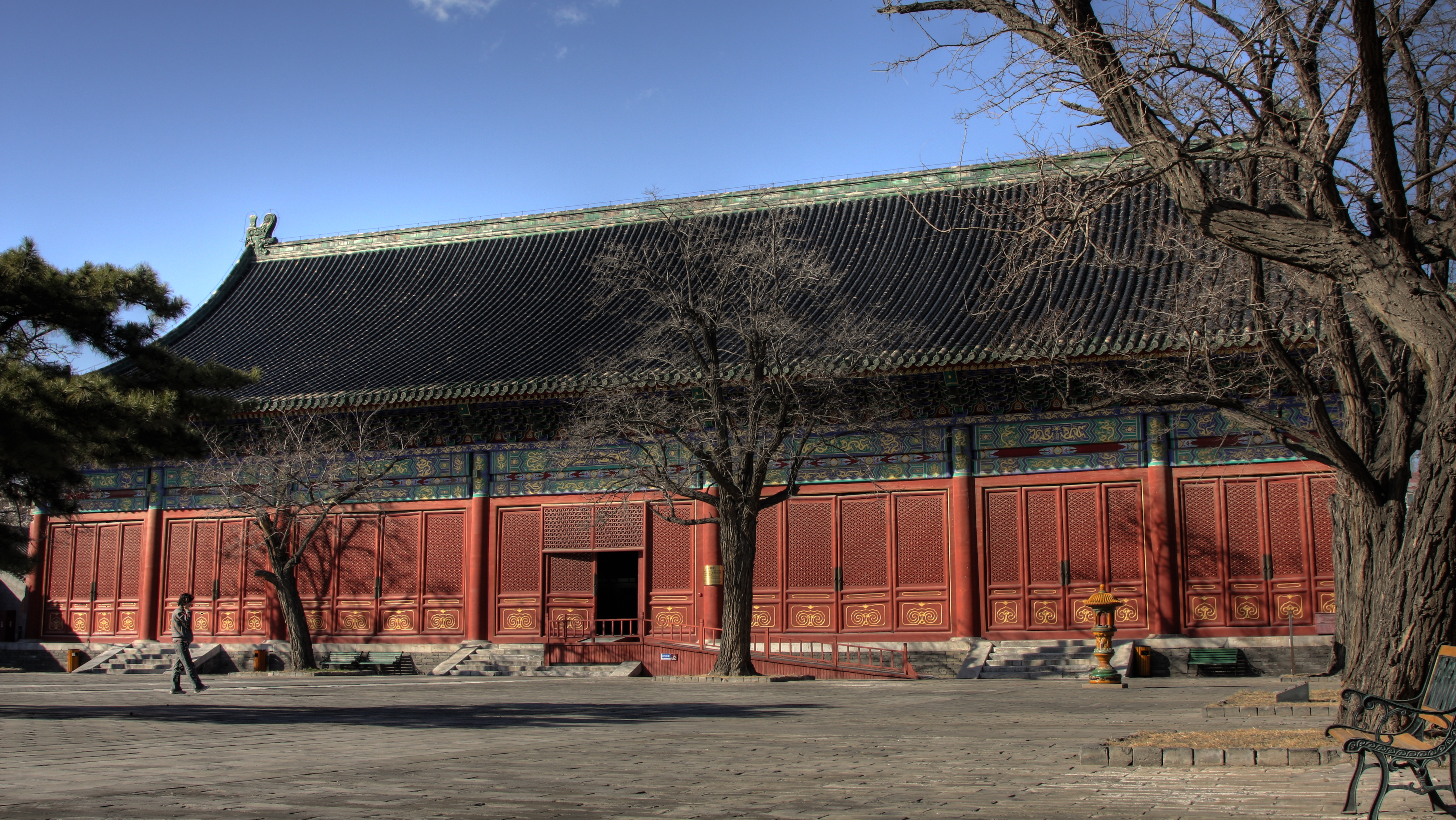 The Xiannongtan (aka Temple of Agriculture) in Beijing, China.